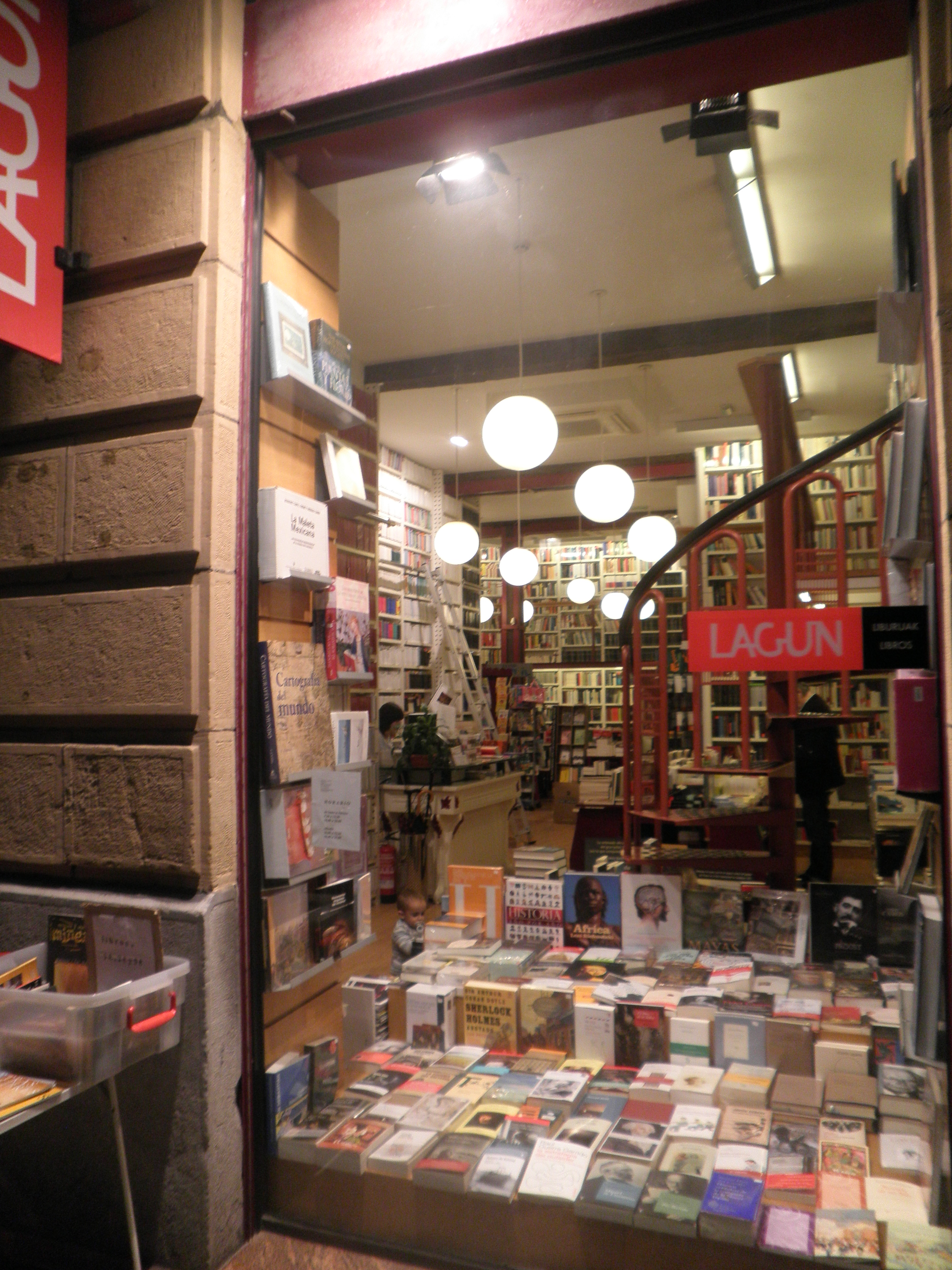 Lagun bookshop in Donostia